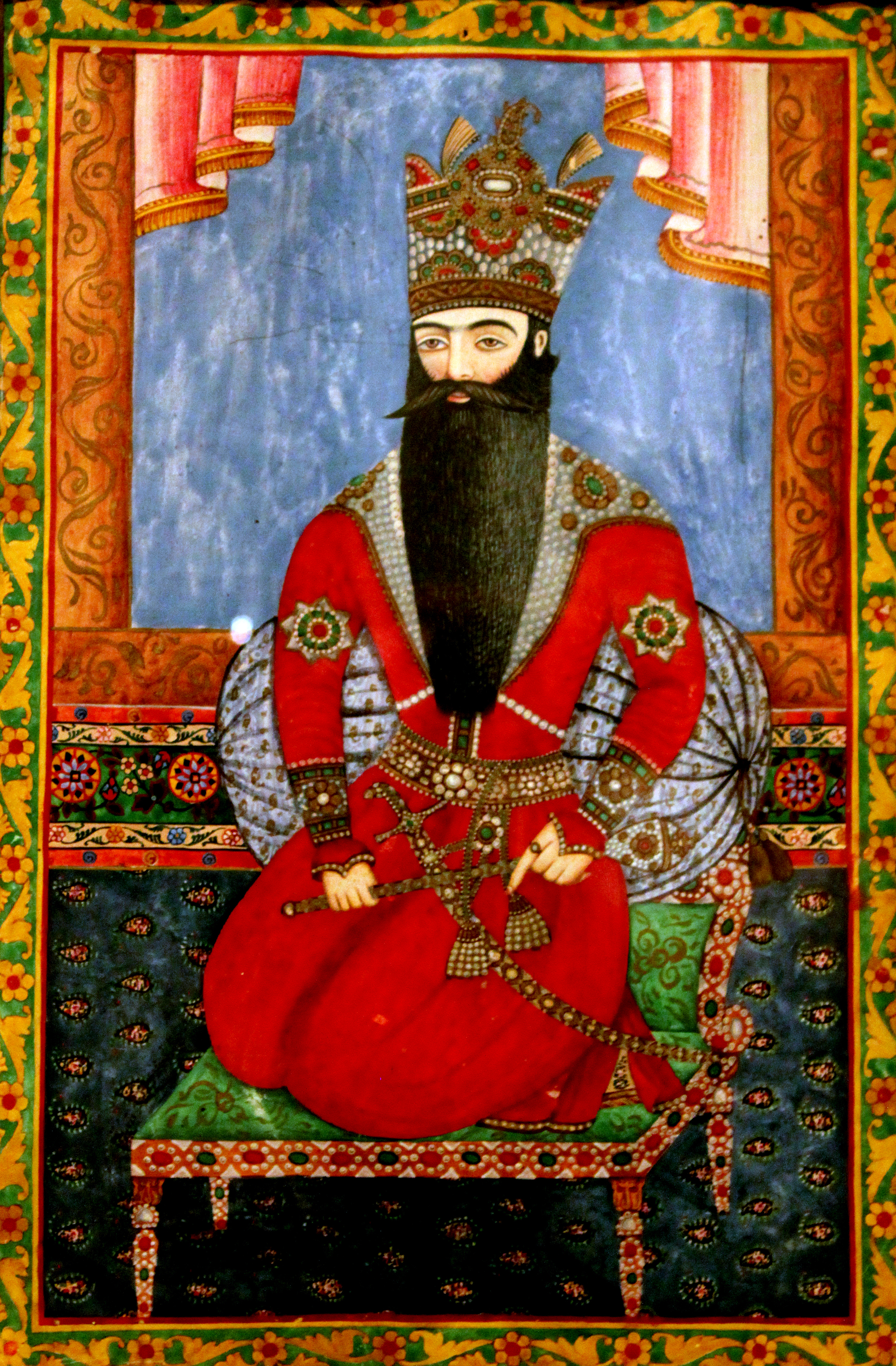 Portrait of Fatali Shah. Paper, watercolour. 33×22.3